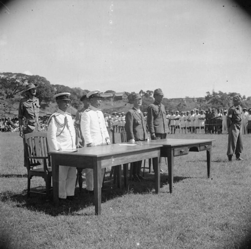 The Allied Reoccupation of the Andaman Islands, 1945 The Japanese delegation at the ceremony to mark the surrender of Japanese forces in the Andaman Islands. The representatives are (l to r) Staff Captain Shimazaki, Vice Admiral Tiezo Hara, Major General Tamenori Sato and Lieutenant Colonel Tazawa. The ceremony took place at 10am on the Gymkhana Sports Ground, Port Blair.